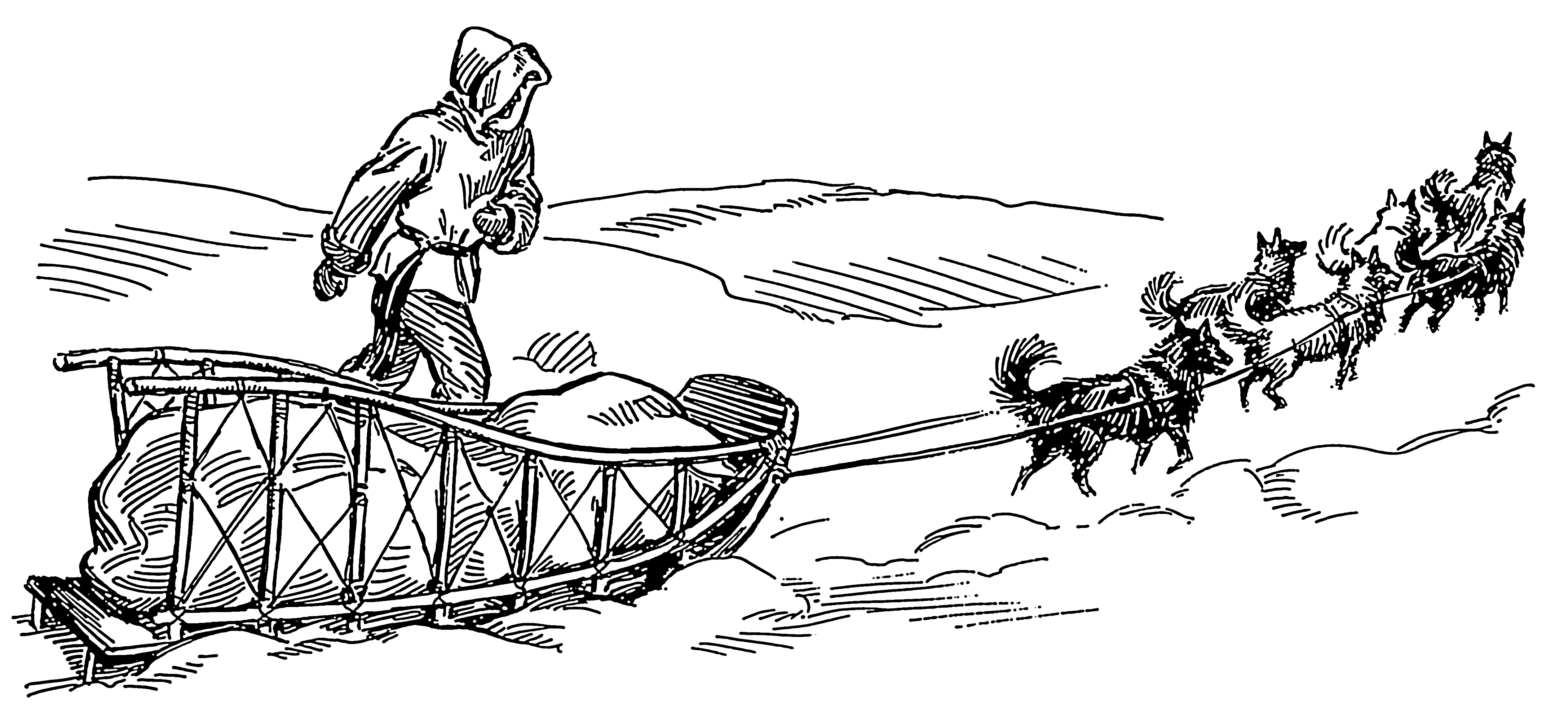 Line art drawing of a dogsled.